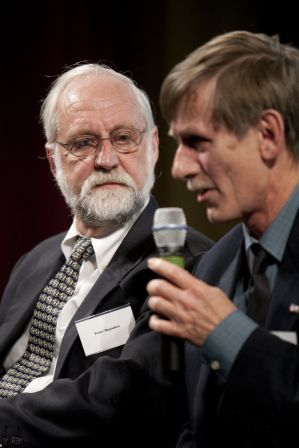 Portrait of Peter Reynders (on left)(Note the d in his name, which is missing in the title of this page!), Secretary of the Australia on the Map Division of the Australasian Hydrographic Society, and Rupert Gerritsen (on right), Chair of the Australia on the Map Division of the Australasian Hydrographic Society, taken on 19 Juneat a symposium at the National Library of Australia to mark the 200th anniversary of the publication of the Freycinet map, the first full map of Australia to be published.